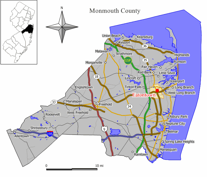 Source: Jim Irwin